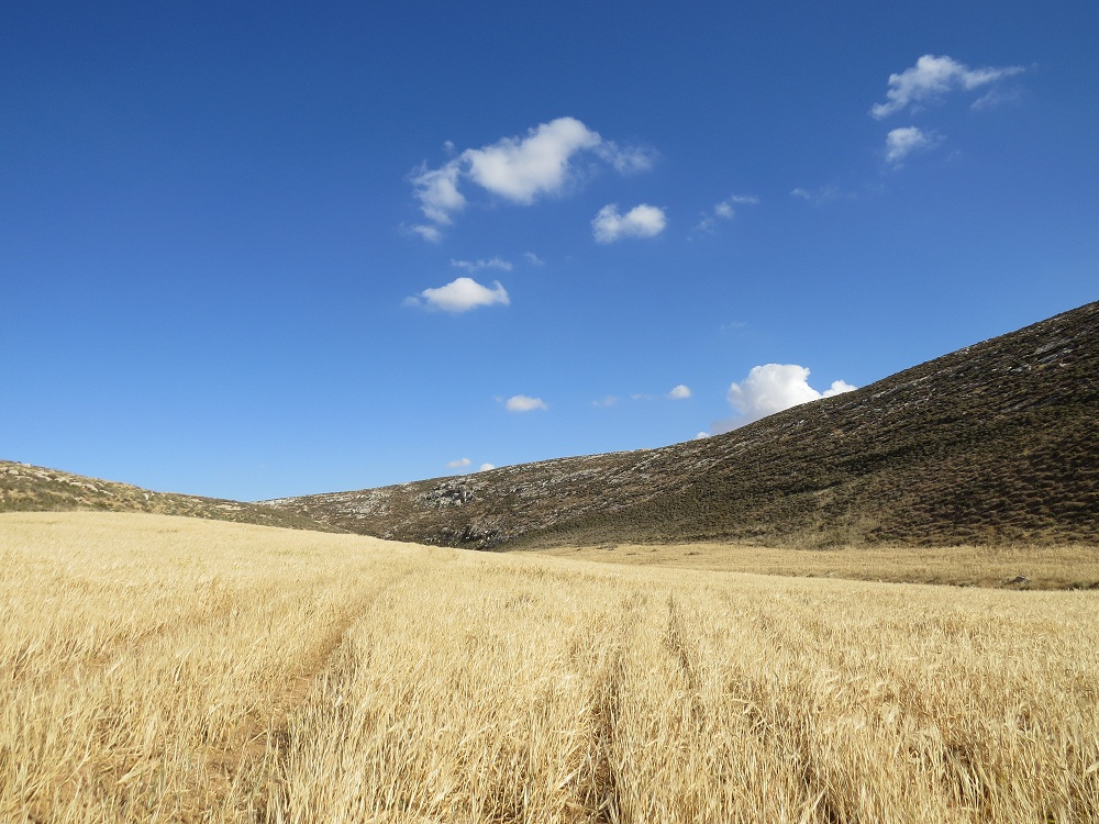 Wheat fields